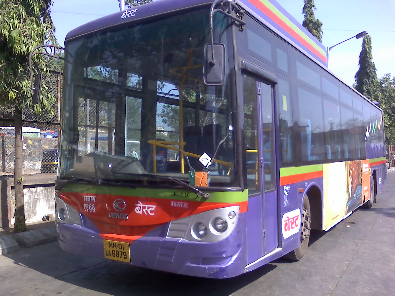 An airconditioned Kinglong Bus belonging to BEST of Mumbai.